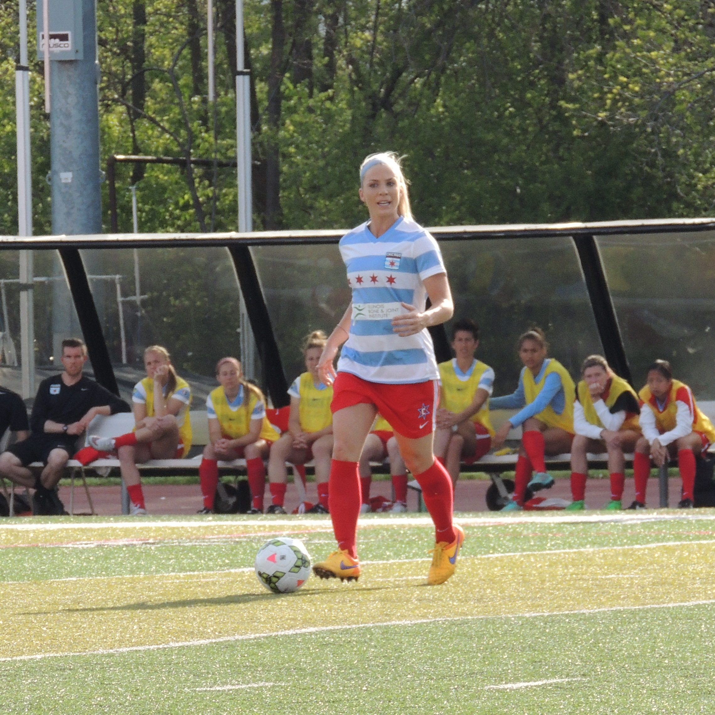 2015-05-02 Julie Johnston in Sky Blue at Red Stars